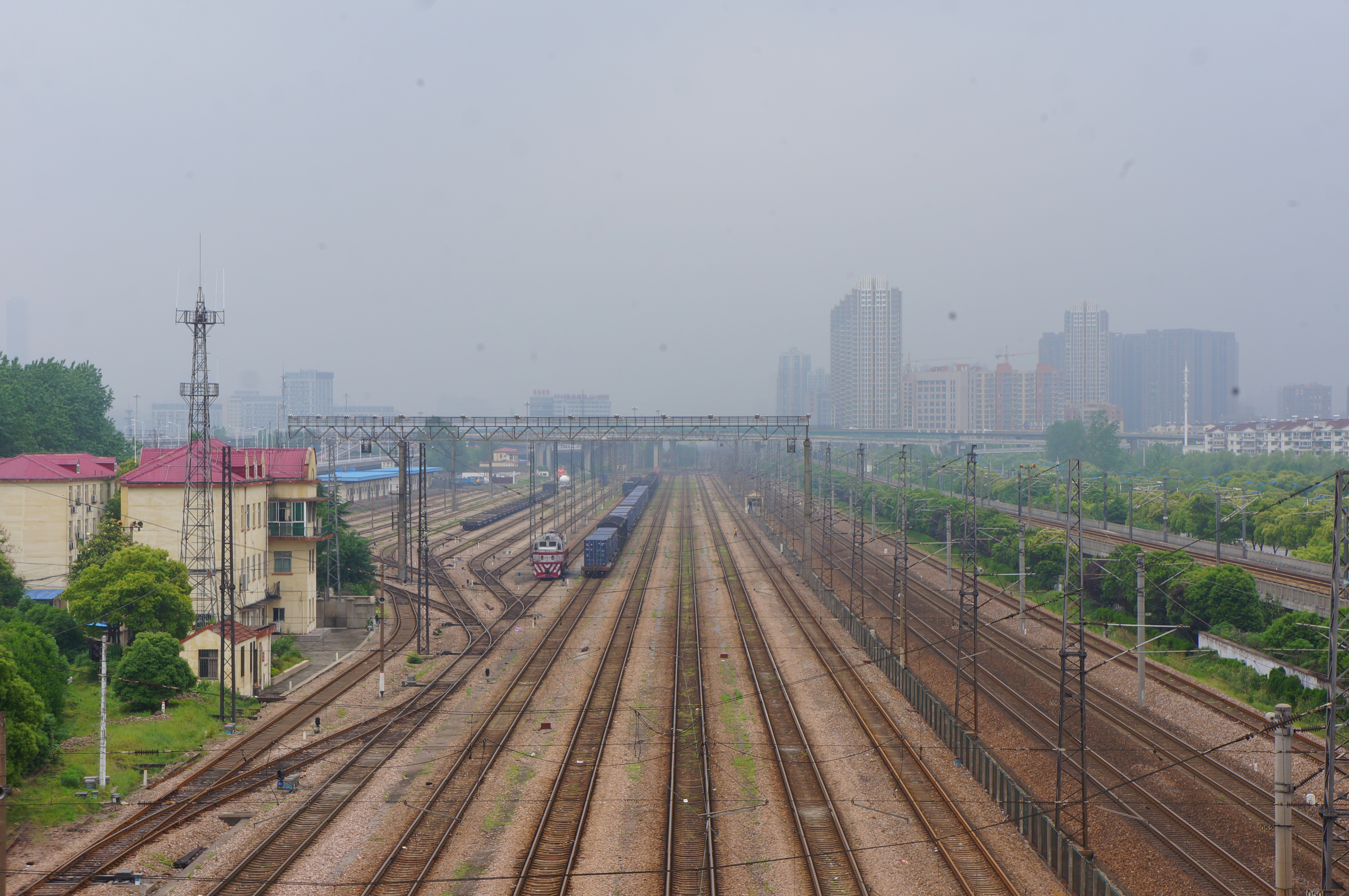 201705 Shunting Yard of Wuxinan Station, it is just a checkout.